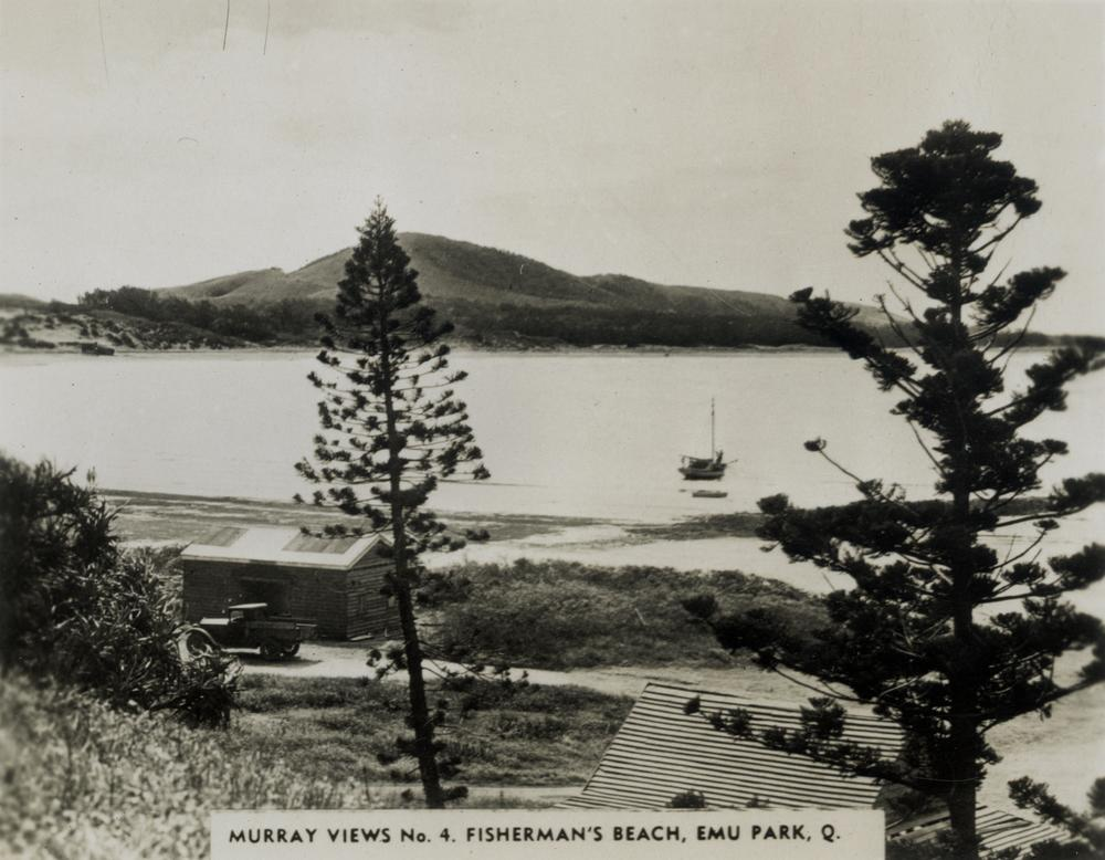 Fisherman's Beach at Emu Park, Queensland. View of the bay at Emu Park, north of Rockhampton . This is an original Murray View postcard. No. 4.